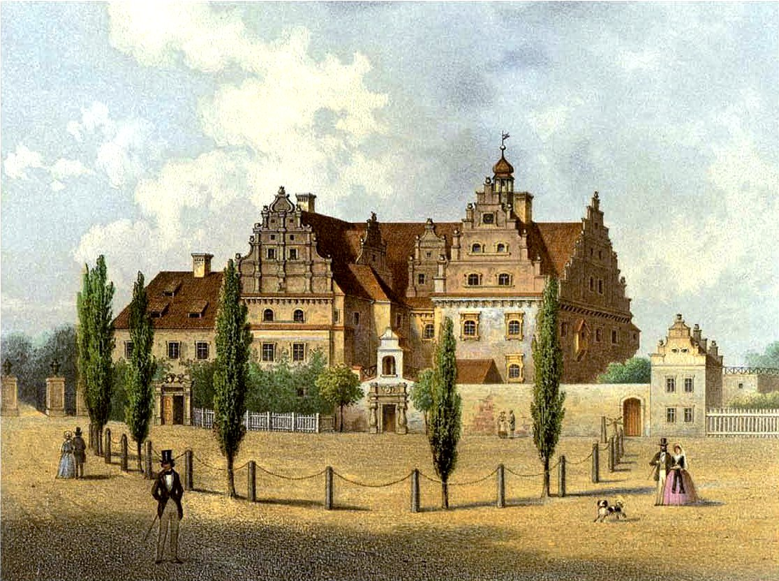 Castle in Dziewin